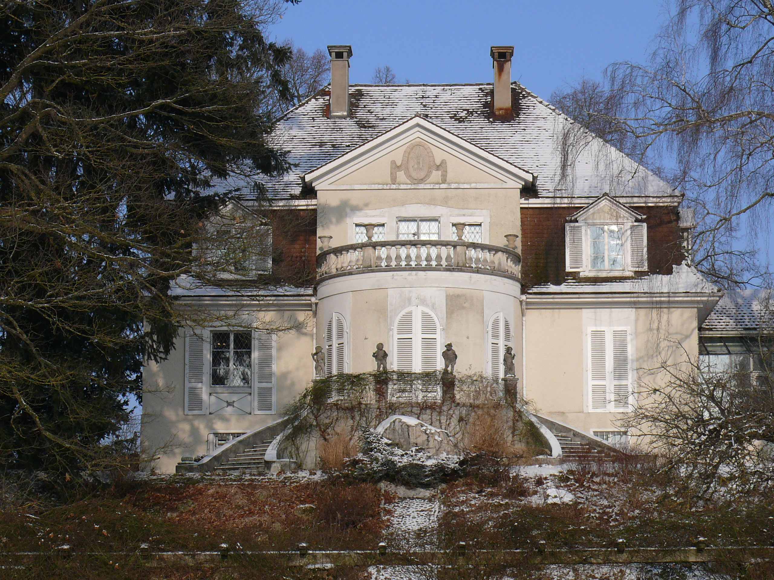 Museum Villa Rot in Burgrieden-Rot, photograph taken in winter 2008/09